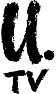 U.TV's former logo, used from 1988 - 1997